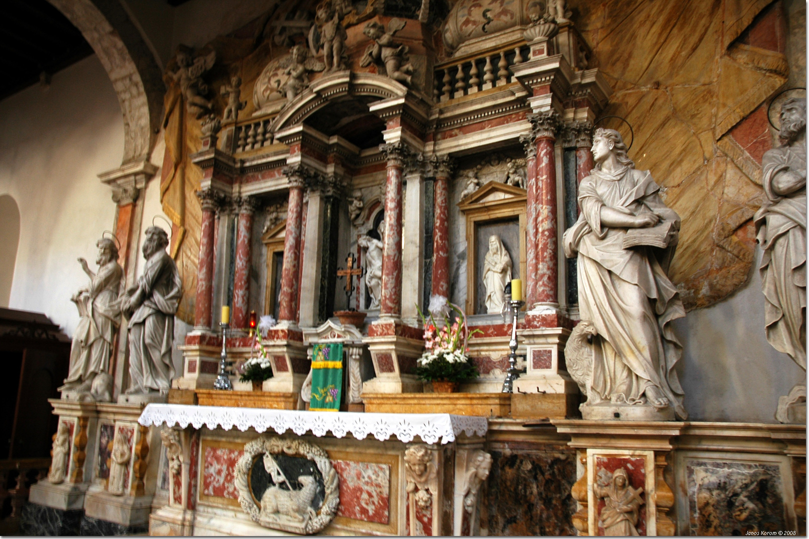 St. Anastasia Cathedral main alter